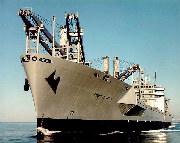 SS Diamond State (ACS-7) underway, date and location unknown. MARAD photo